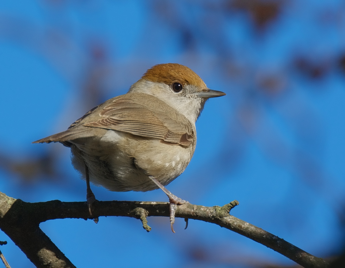 A female Eurasian Blackcap in Slottsskogen, Gothenburg, Vastra Gotaland, Sweden.